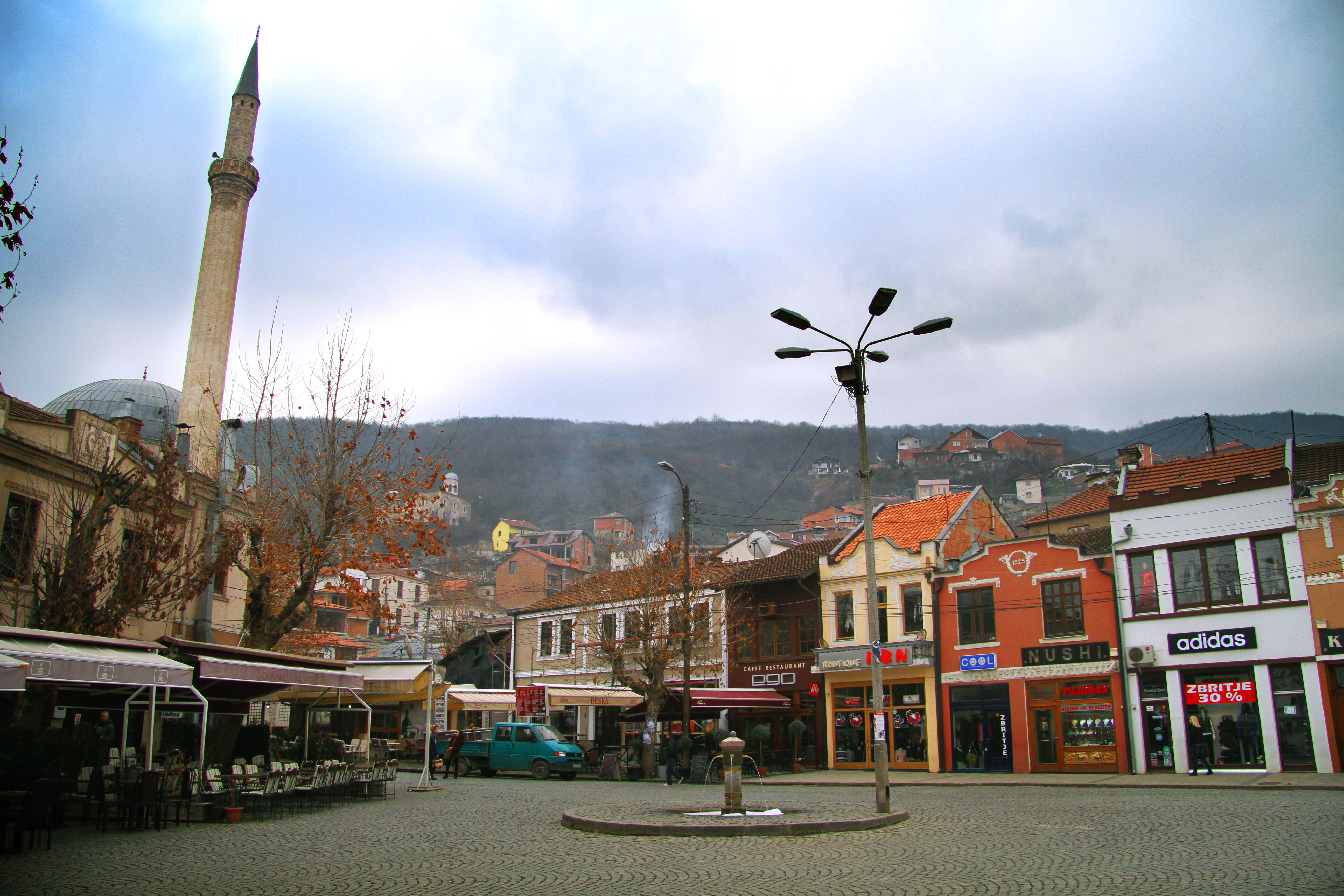 Prizren square and its old architecture